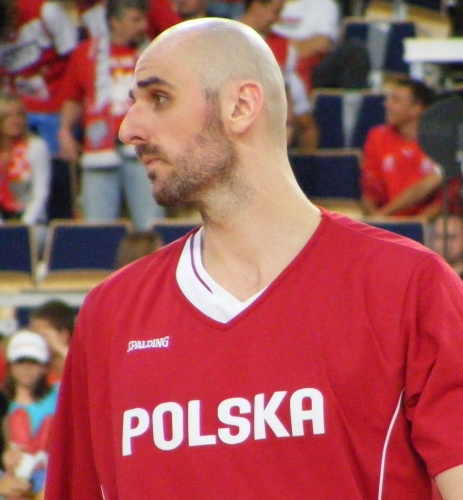 Marcin Gortat, basketball player from Poland